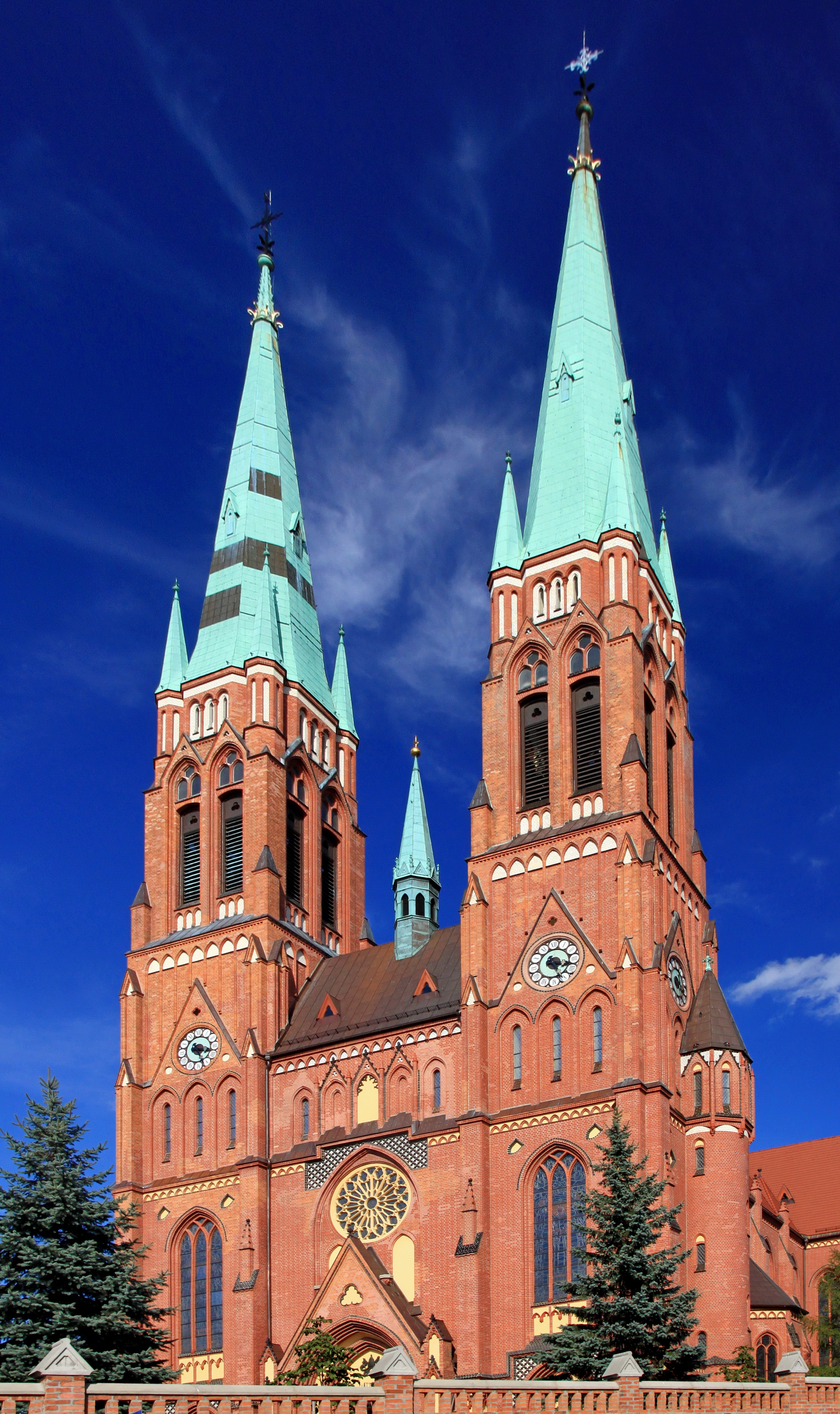 Rybnik, Basilica of St. Anthony, build in 1903-1907